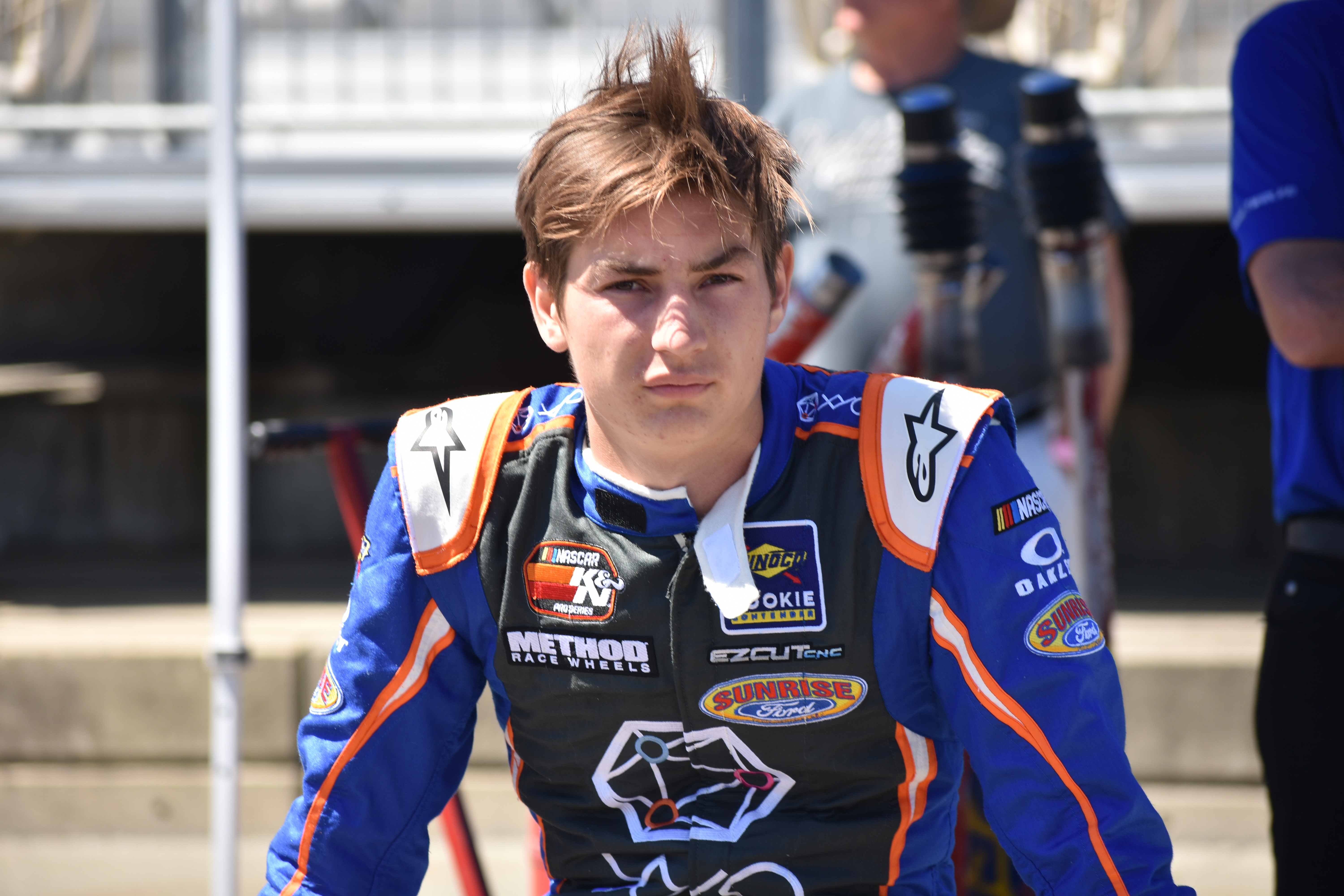 Jones before qualifying at Sonoma Raceway in 2019